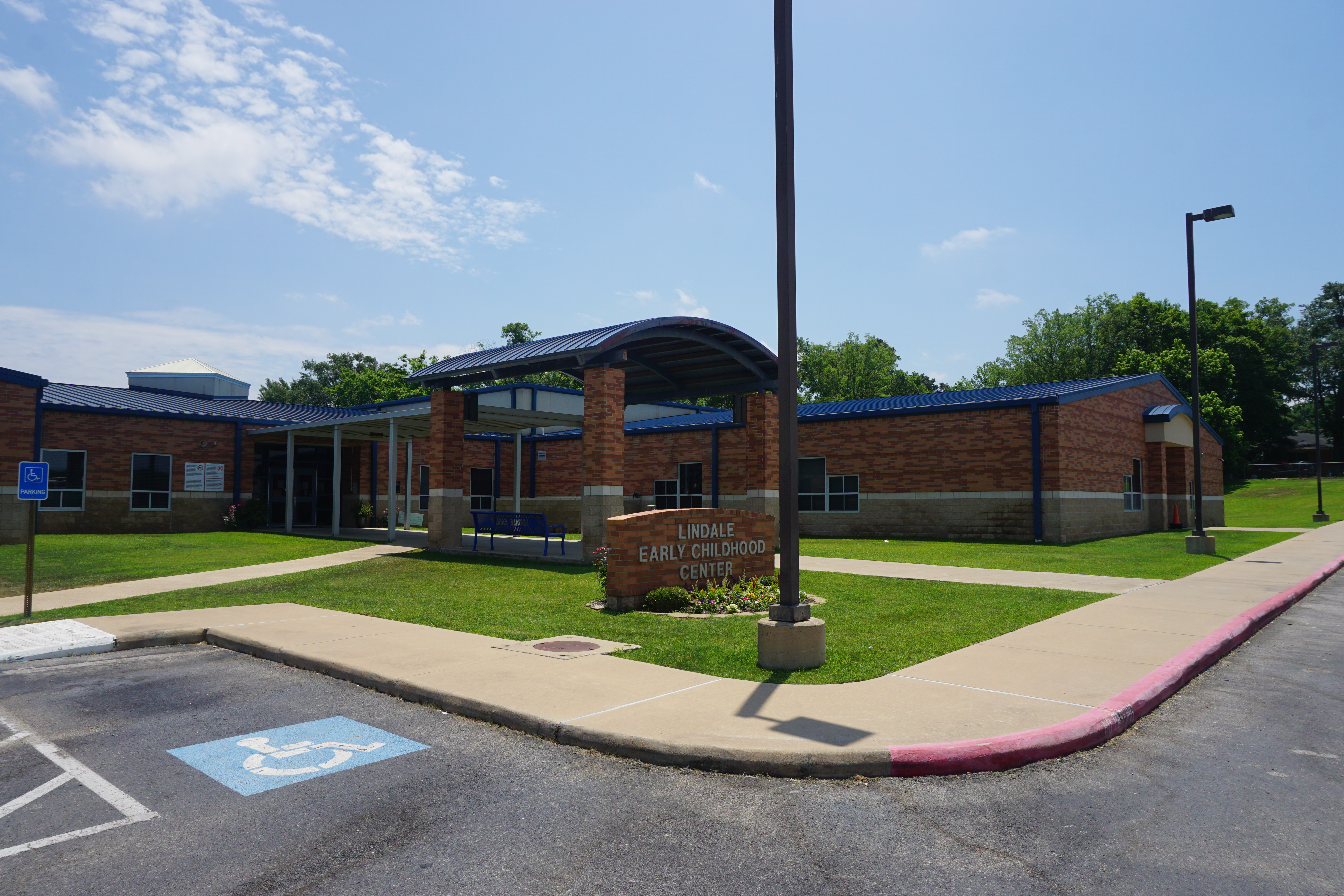 The Lindale Early Childhood Center in Lindale, Texas (United States).